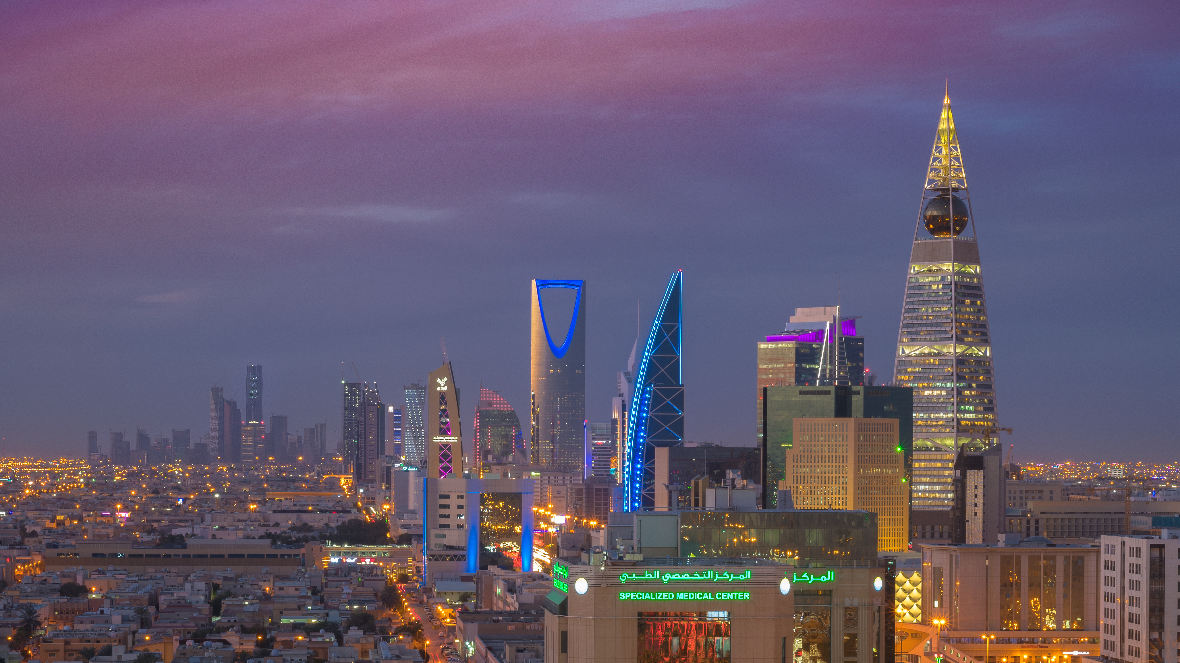 Riyadh Skyline is growing. Dated February 2018